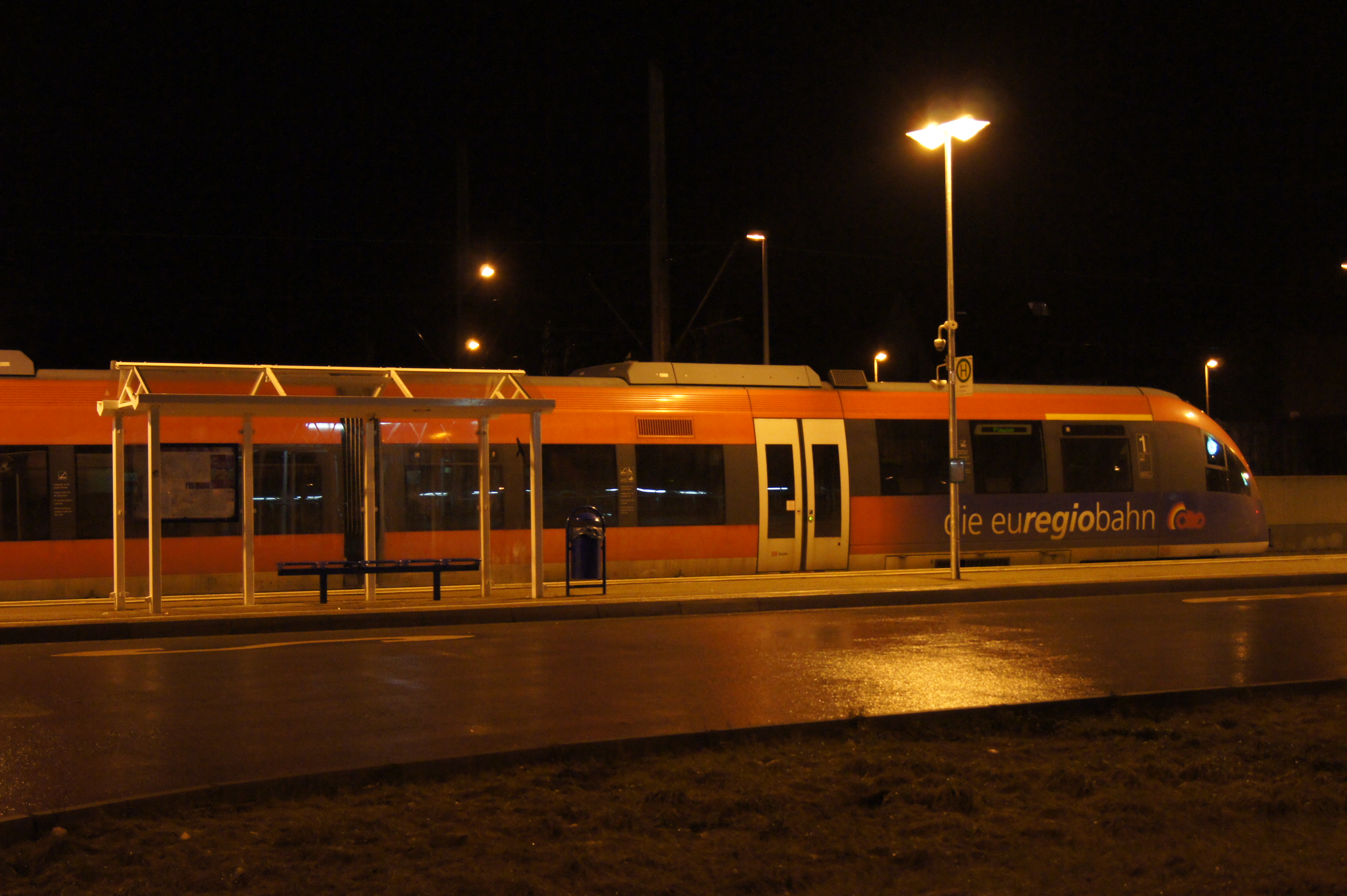 Euregiobahn at night (Langerwehe station)